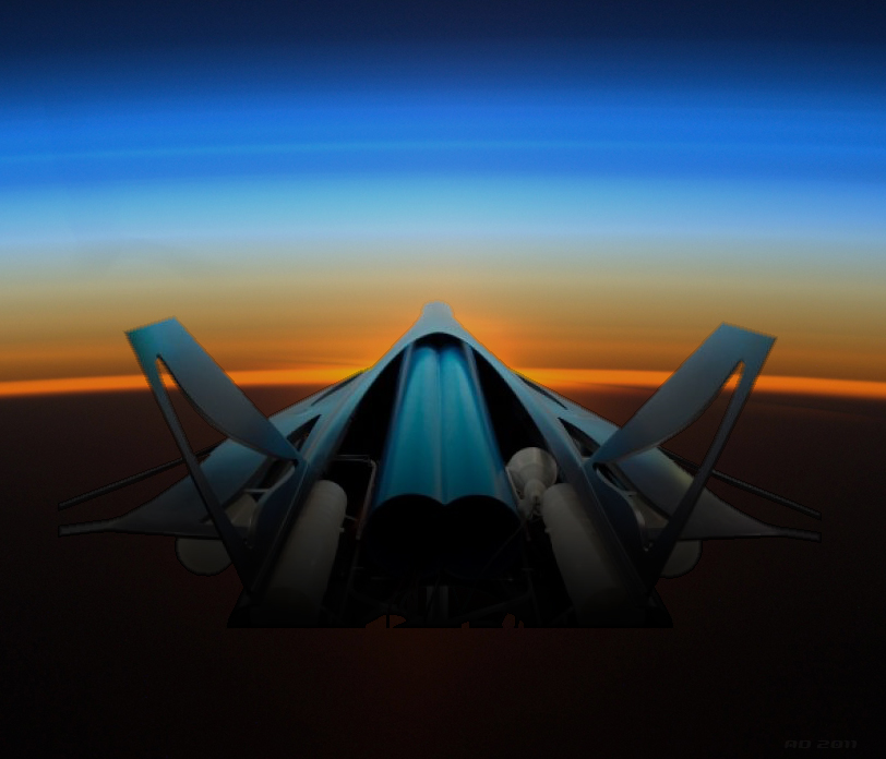 ZEHST Plane Concept